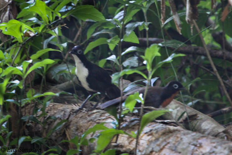 Kuranda, Queensland, Australia.